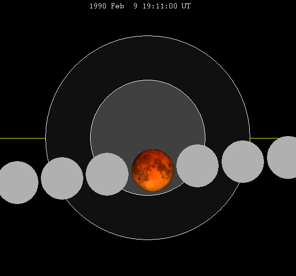 February 1990 lunar eclipse chart of moon's total lunar eclipse path through the earth's shadow. thumb